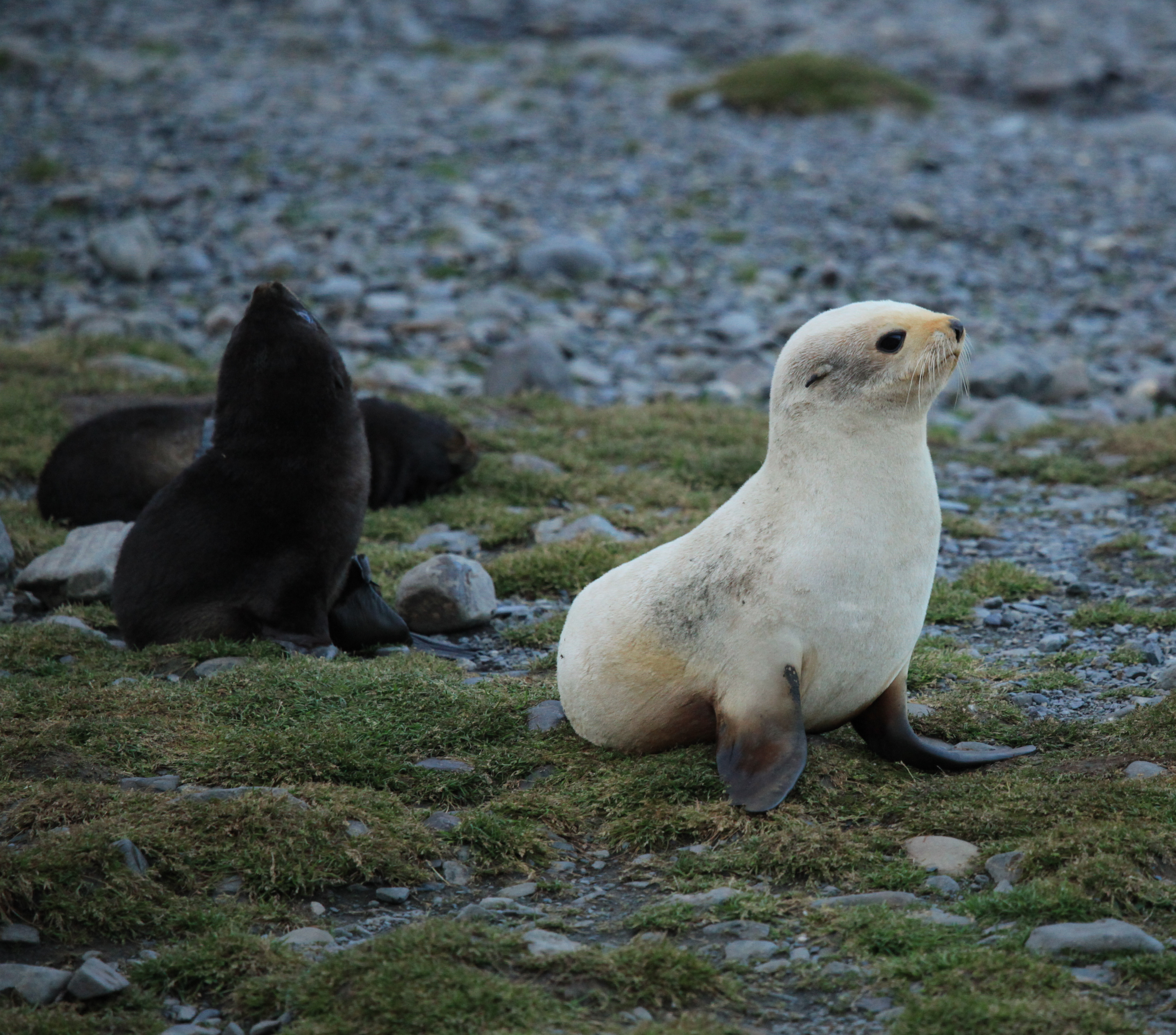 This blond fur seal has a condition called albinism that results in reduced pigmentation. At Stromness, South Georgia.